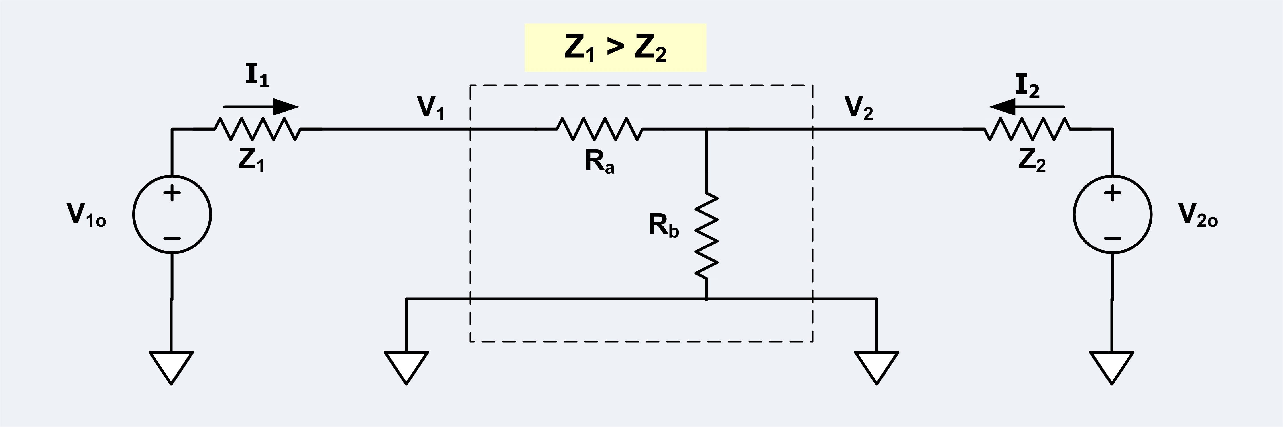 Depicts an resistive L-pad used to match an source and load that are different impedances.